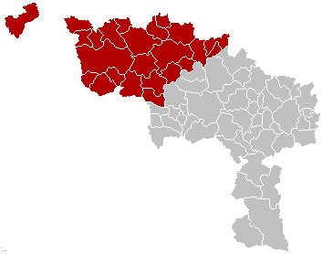 Situation of the "Hainaut Occidental" inside the "province du Hainaut"